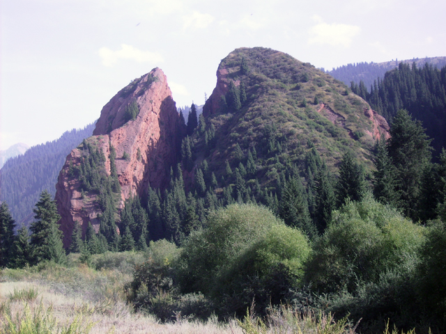 "Brocken-Heart" Rock in Dzety-Oguz Canyon